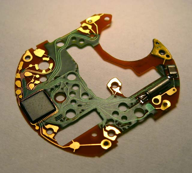 Circuitboard from a chronograph-watch.